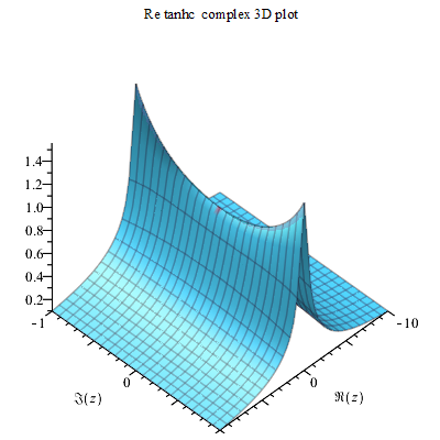 Tanhc Re complex 3D plot